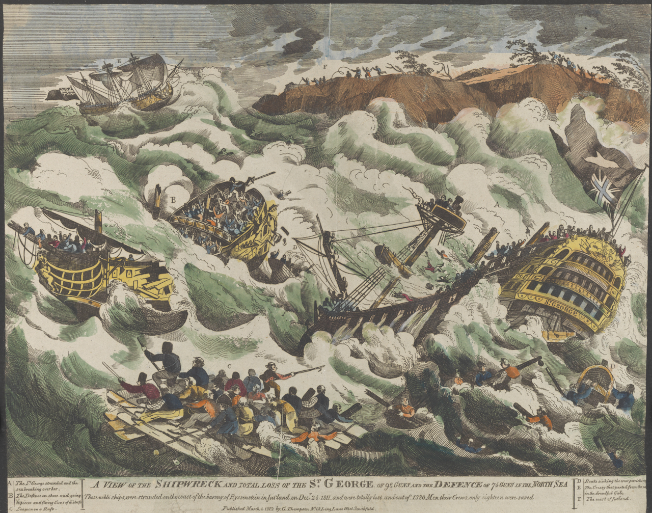 A View of the Shipwreck and Total Loss of the St George... and the Defence.... in the North Sea (with key) Hand-coloured.